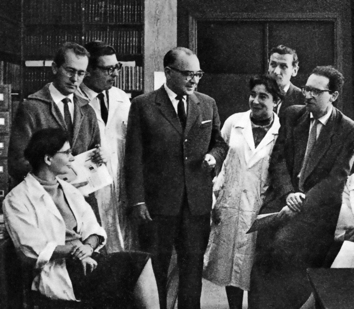 Professor Wiktor Kemula, Polish chemist